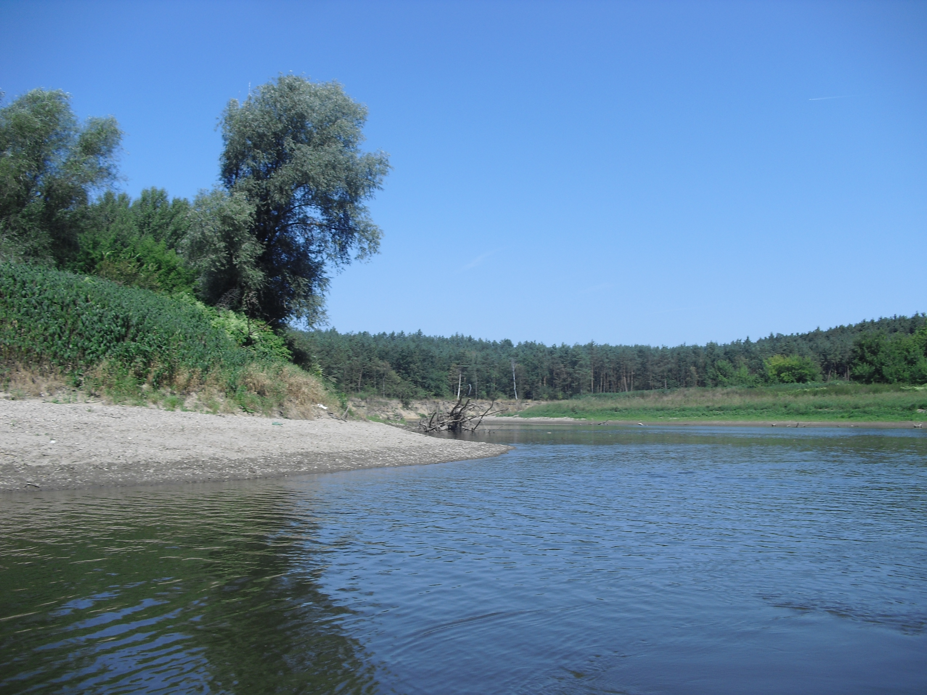 Osypané břehy, a Nature Reserve in South Moravia in the Czech Republic.